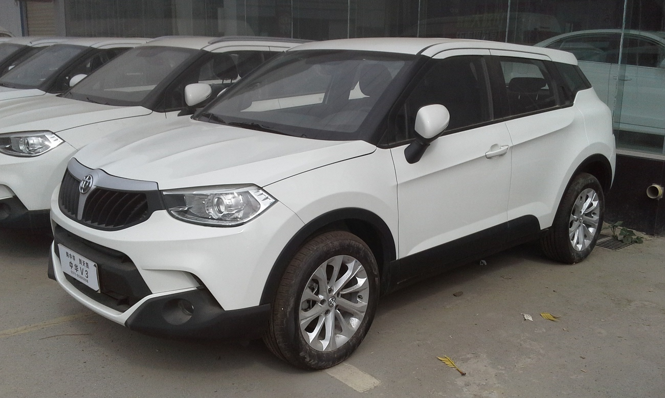 Brilliance V3 photographed in Zhengzhou, Henan province, China.